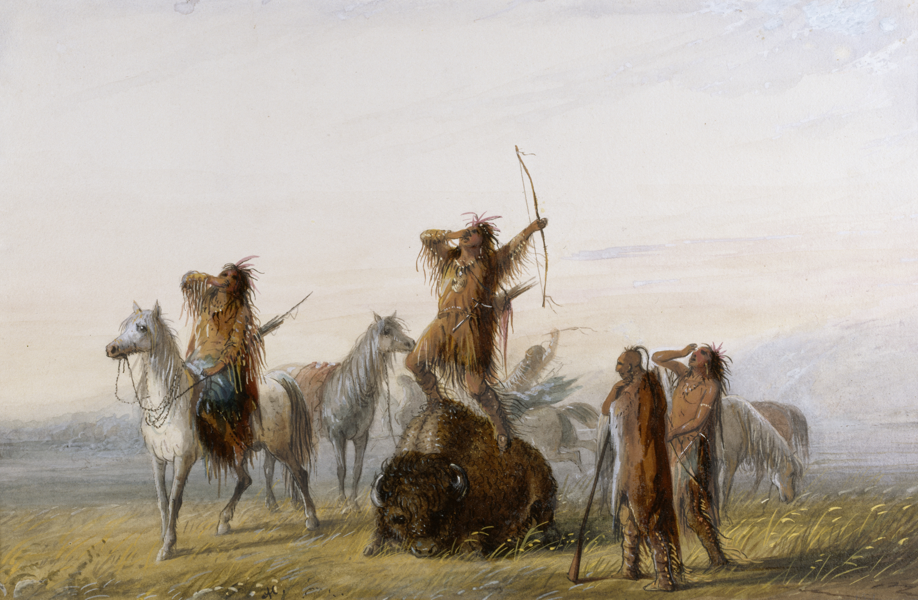 The hunters have brought down the buffalo, Miller noted, "and one has mounted the back of the animal to join in an Indian yell and song;- partly as a species of requiem to the Buffalo for the game quality he has exhibited, but mainly as an act of self glorification for giving the "coup de grace" to the bull. "The Indian hunters in selecting a buffalo from the herd for themselves are generally much more influenced by the luxuriant coat of hair he wears, in reference to making a robe, than tenderness of beef for roasting purposes. The party here have secured an animal whose hide will make a first class robe. Placing him on his haunches in an upright position the conquerer is mounting the animal in full war dress and in his exultation sounds the key note for a 'Yell of Triumph' in which all join. No description can give an idea of this wild ear piercing manifestation, it is something unearthly serving at the same time as a boast for the visitors and requiem for the buffalo. "After tanning one side of the robe in which they are experts they often paint on it reminiscences of battle scenes in most brilliant colors, thereby commanding a premium at the agency of the Fur Company... In fact is is indispensable in many domestic purposes among themselves, clothing them in winter and forming the most comfortable couches for repose."